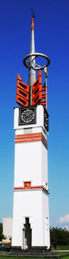 Myshkovichi_tower_clock.